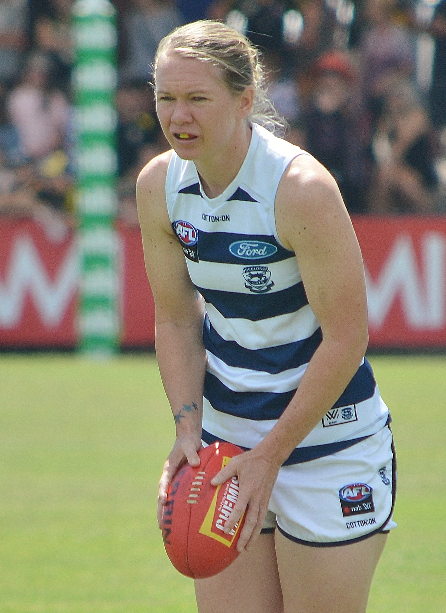 Aasta O'Connor with Geelong in the round 4 2020 AFLW match against Richmond at Queen Elizabeth Oval in Bendigo.